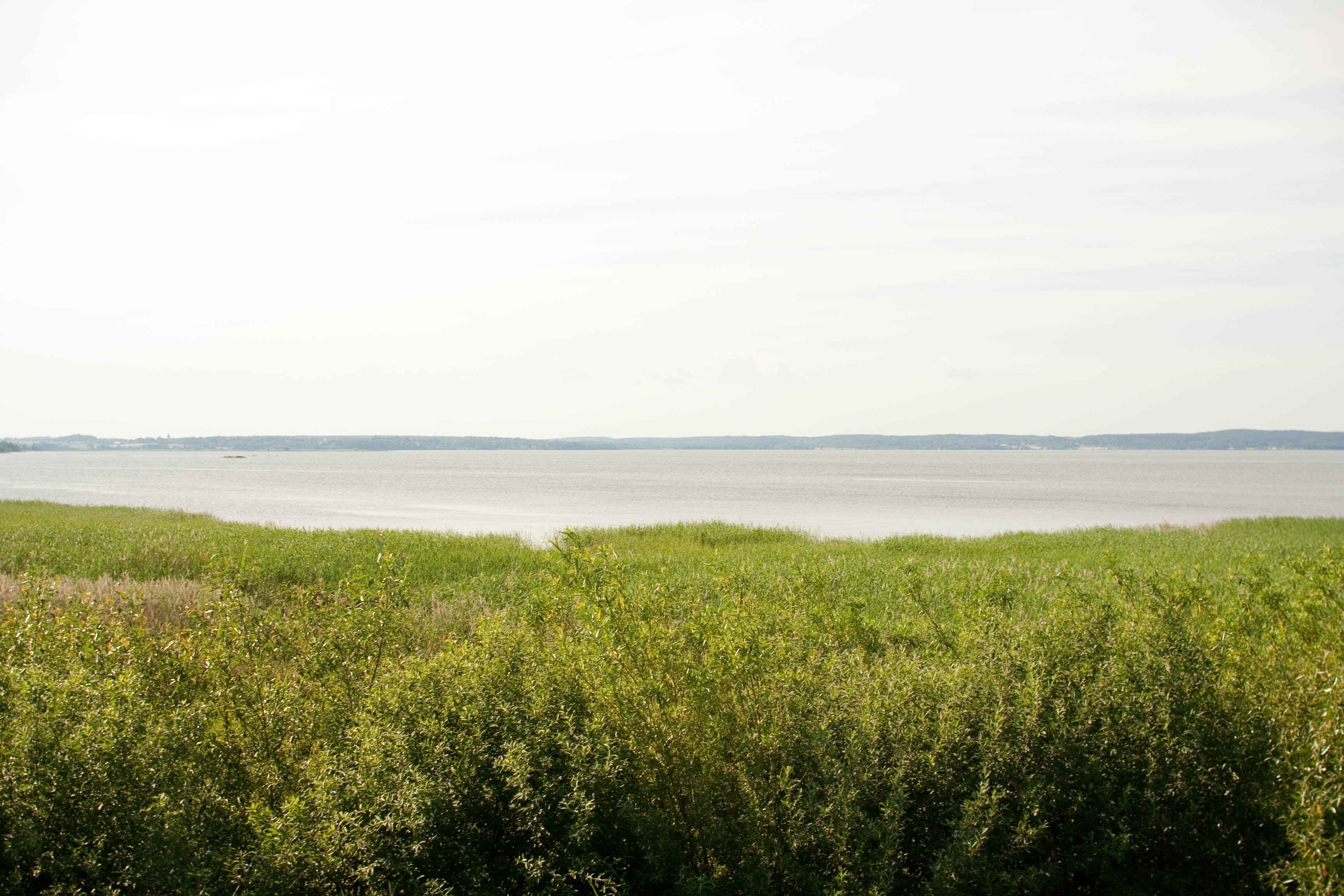 Roxen Lake (Sweden)